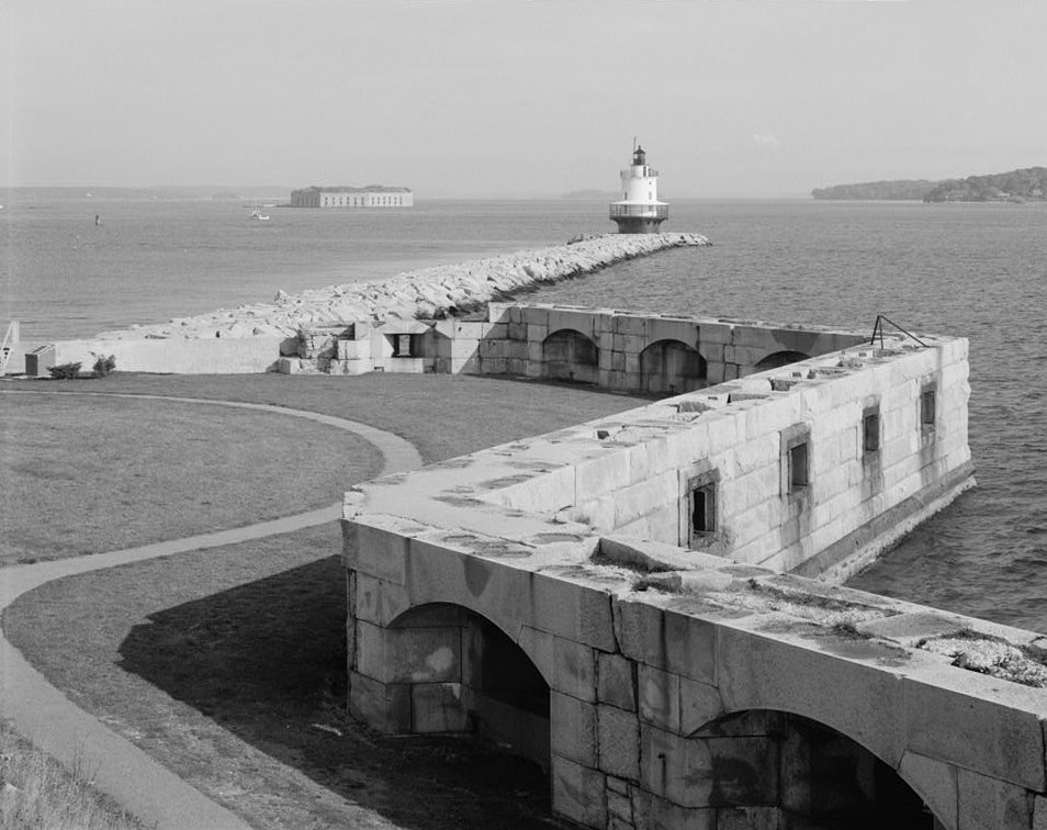 Spring Point Ledge Light Station, End of breakwater at foot of Fort Preble, South Portland, Cumberland County, ME